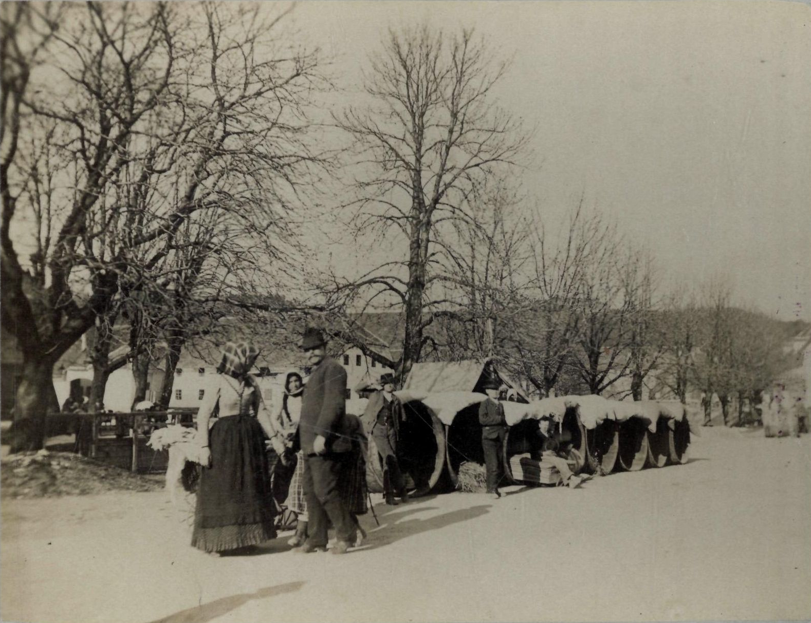 1895 Ljubljana earthquake by Helfer